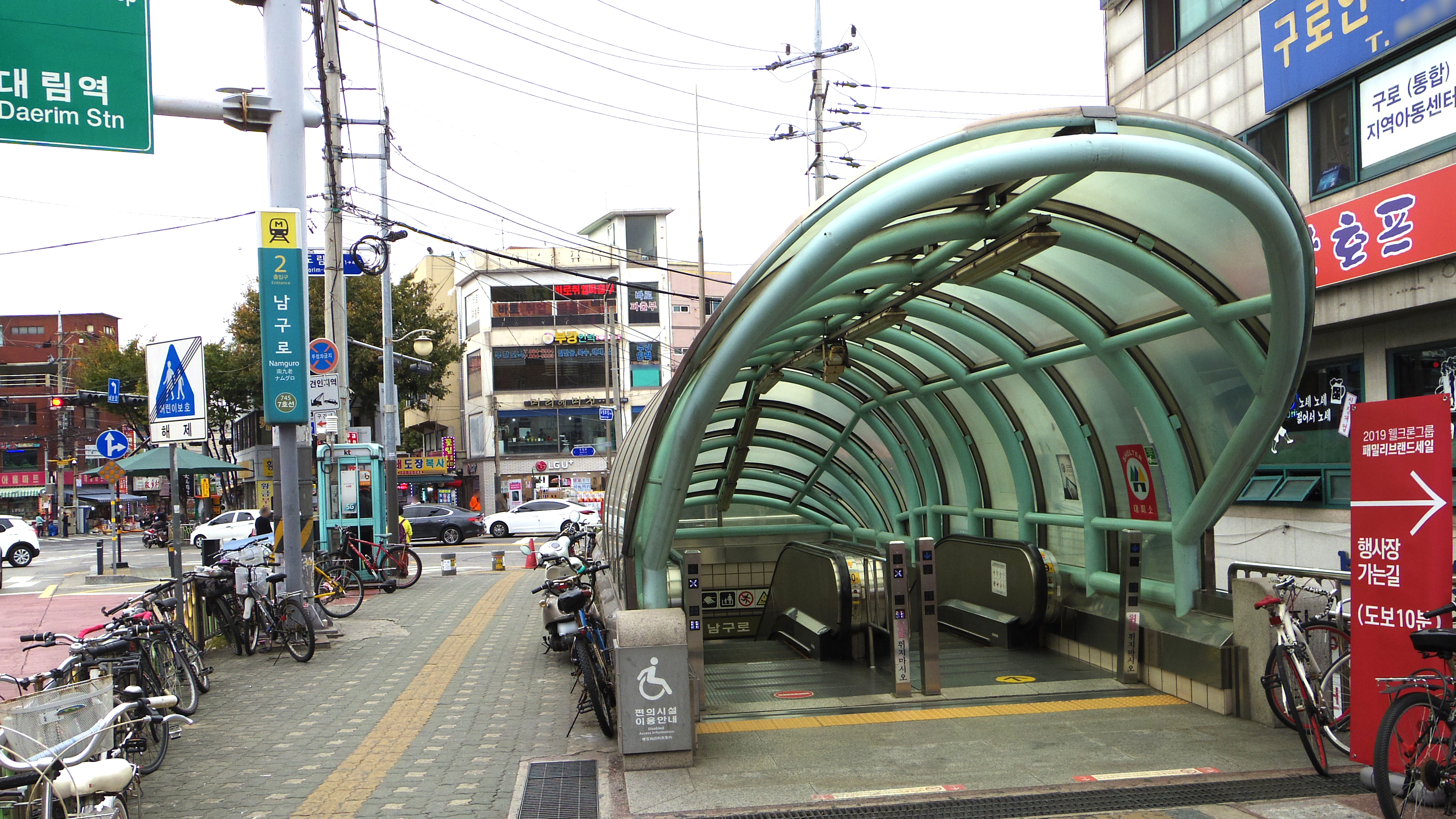 The no.2 entrance to Namguro Station on the Seoul Metro Line 7 in Guro-gu, Seoul, Republic of Korea(South Korea)